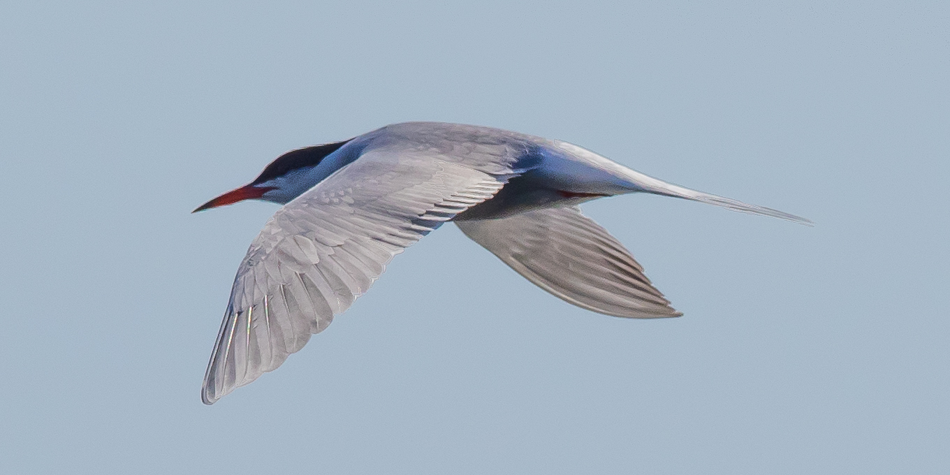 Tärna, Tern, Sternidae, around Vaxholm, Sweden